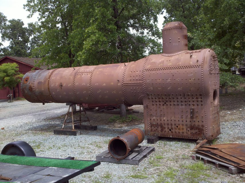 The original boiler of Sierra No. 3, a steam locomotive located at Railtown 1897 State Historic Park in Jamestown, California. The boiler was replaced with a new one for safety reasons, in a renovation completed in 2010.